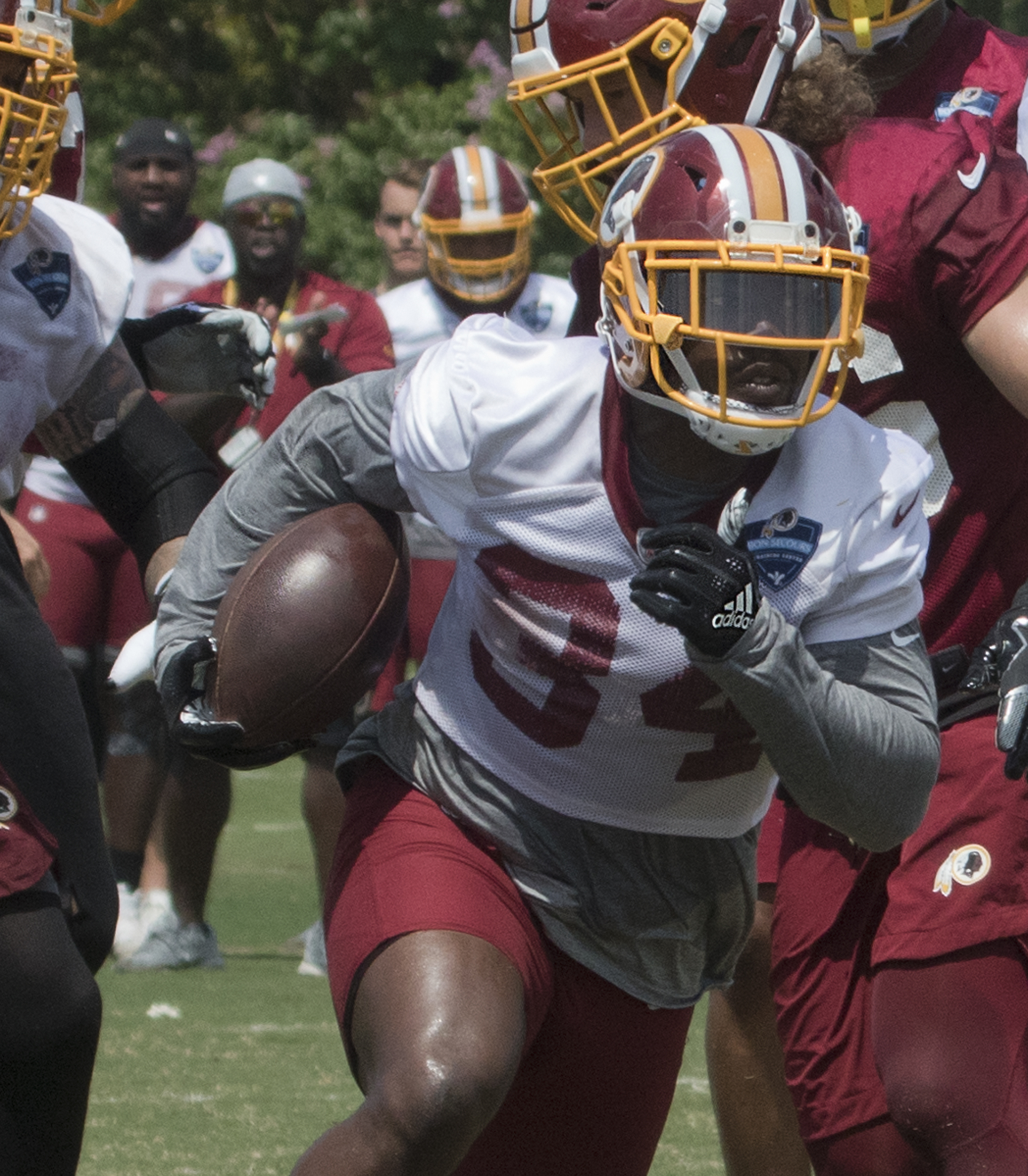 Washington Redskins running back, Byron Marshall, at training camp on August 7, 2018